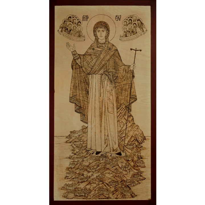 Greek Orthodox icon of the Virgin Mary of Mount Athos (and details) created by Father Vasileios Pavlatos in Kefalonia, Greece using the technique of Pyrography.